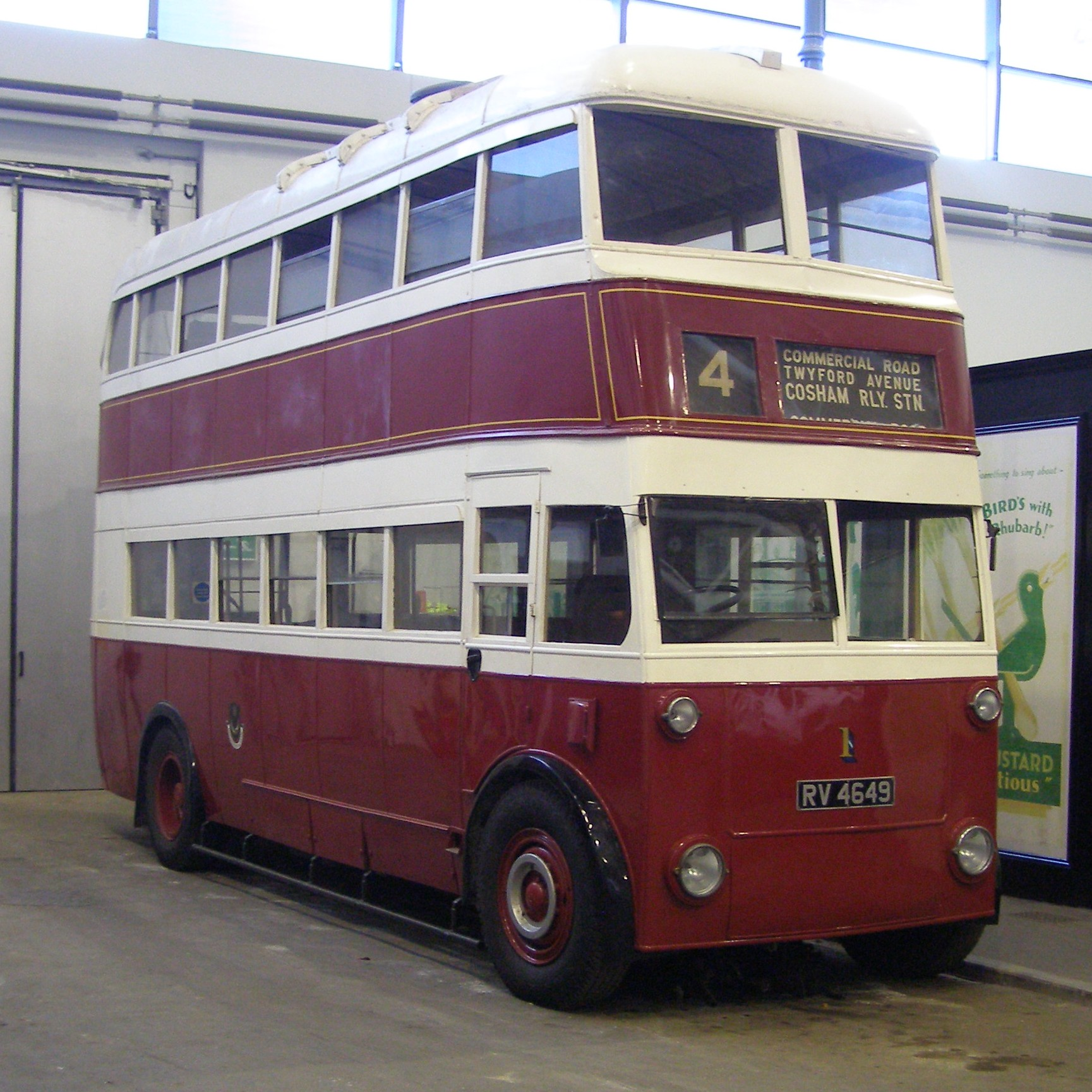 A former Portsmouth Corporation 1934-built AEC 661T Trolleybus "RV4649" at the Milestones Museum, Basingstoke, Hampshire.